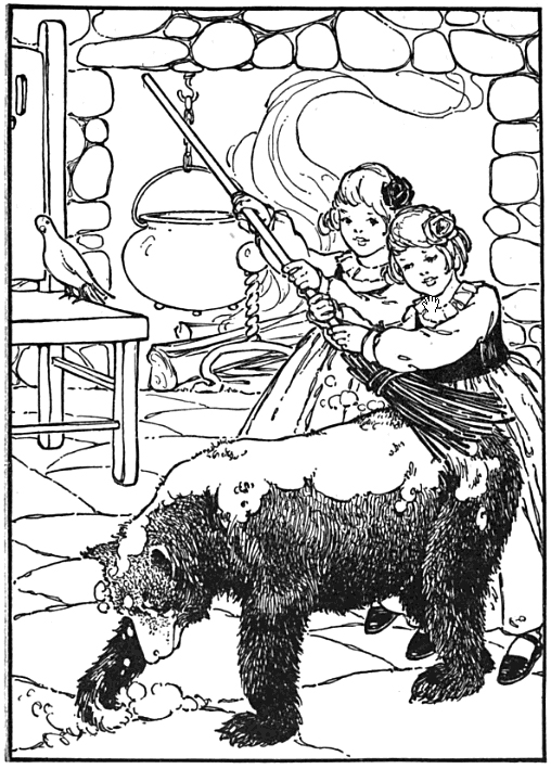 Captioned as "They brought the broom and swept the bear's coat clean". Snow White and Rose Red brush the snow off of their bear visitor.